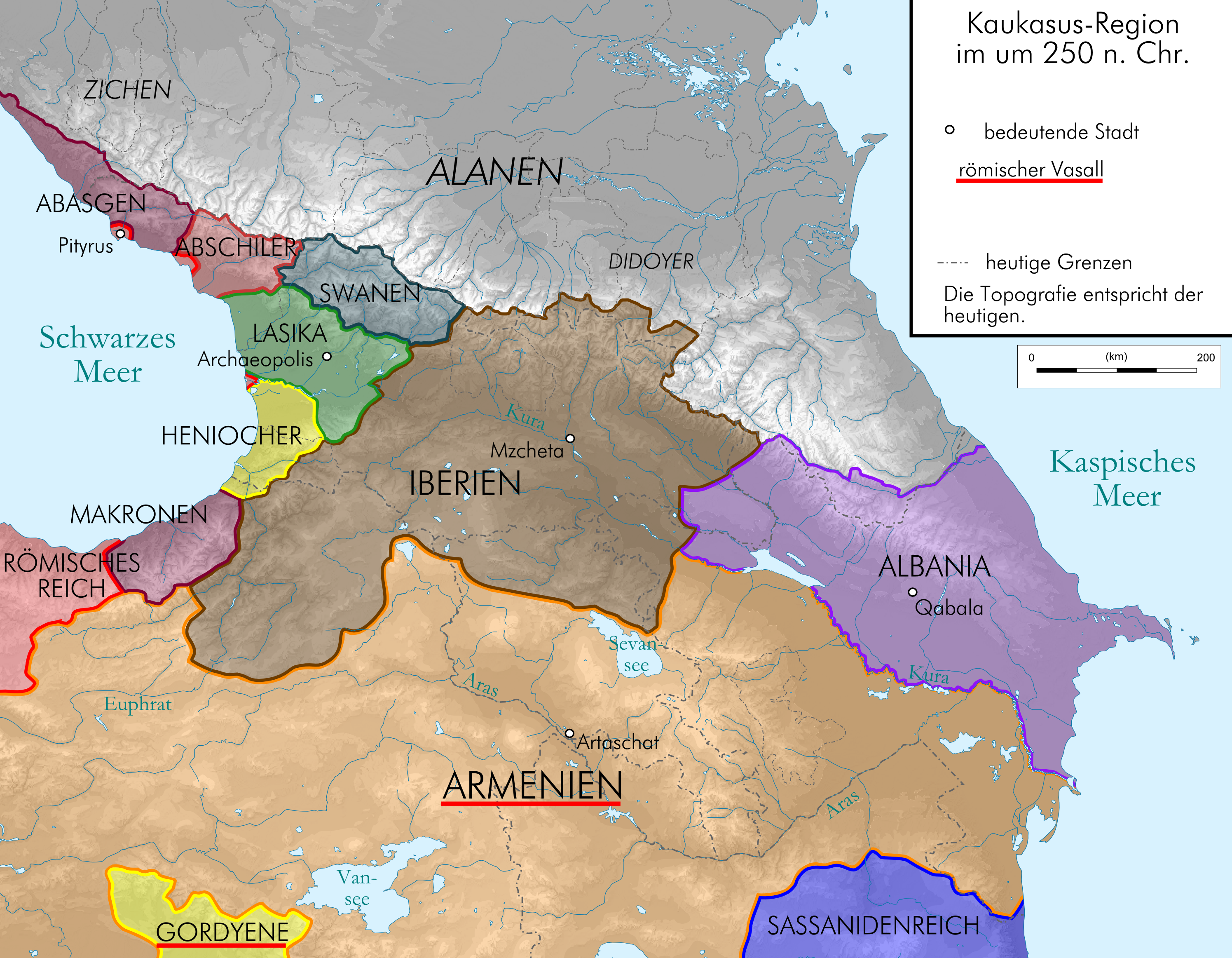 Map of Caucasus around 250 AD in German.